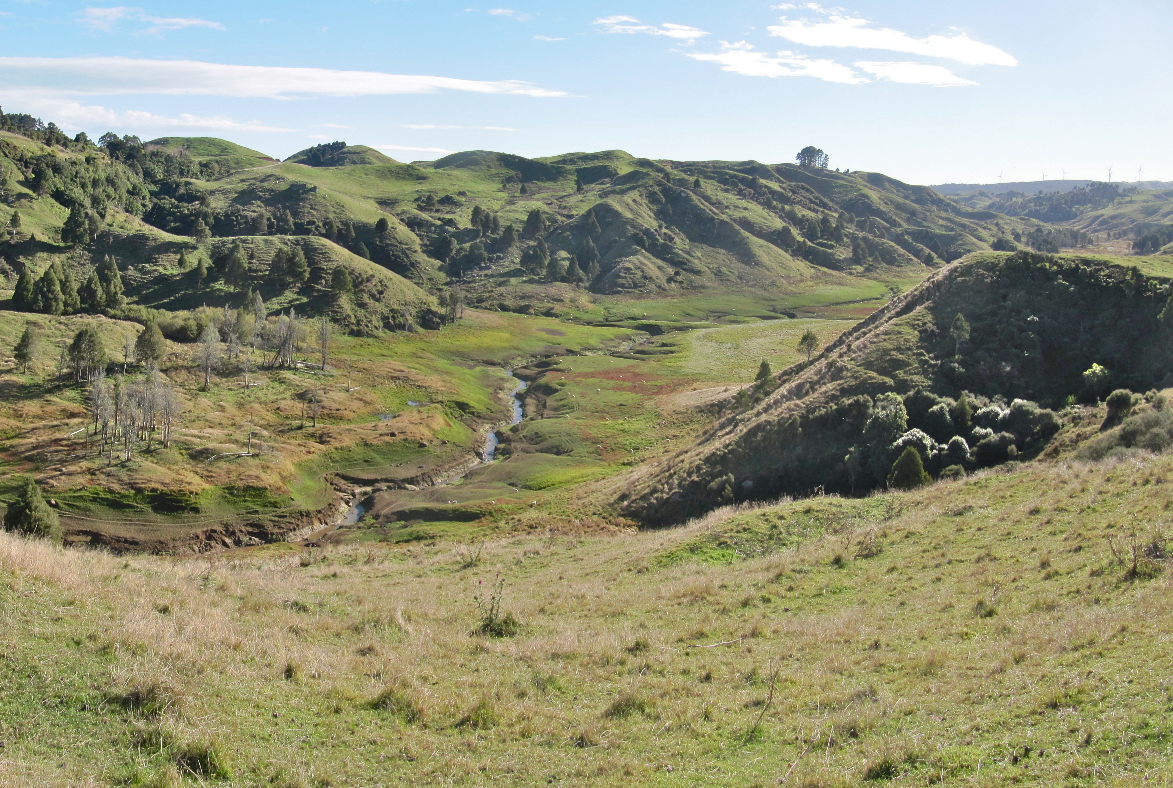 Pakihi Stream flowing through lake bed